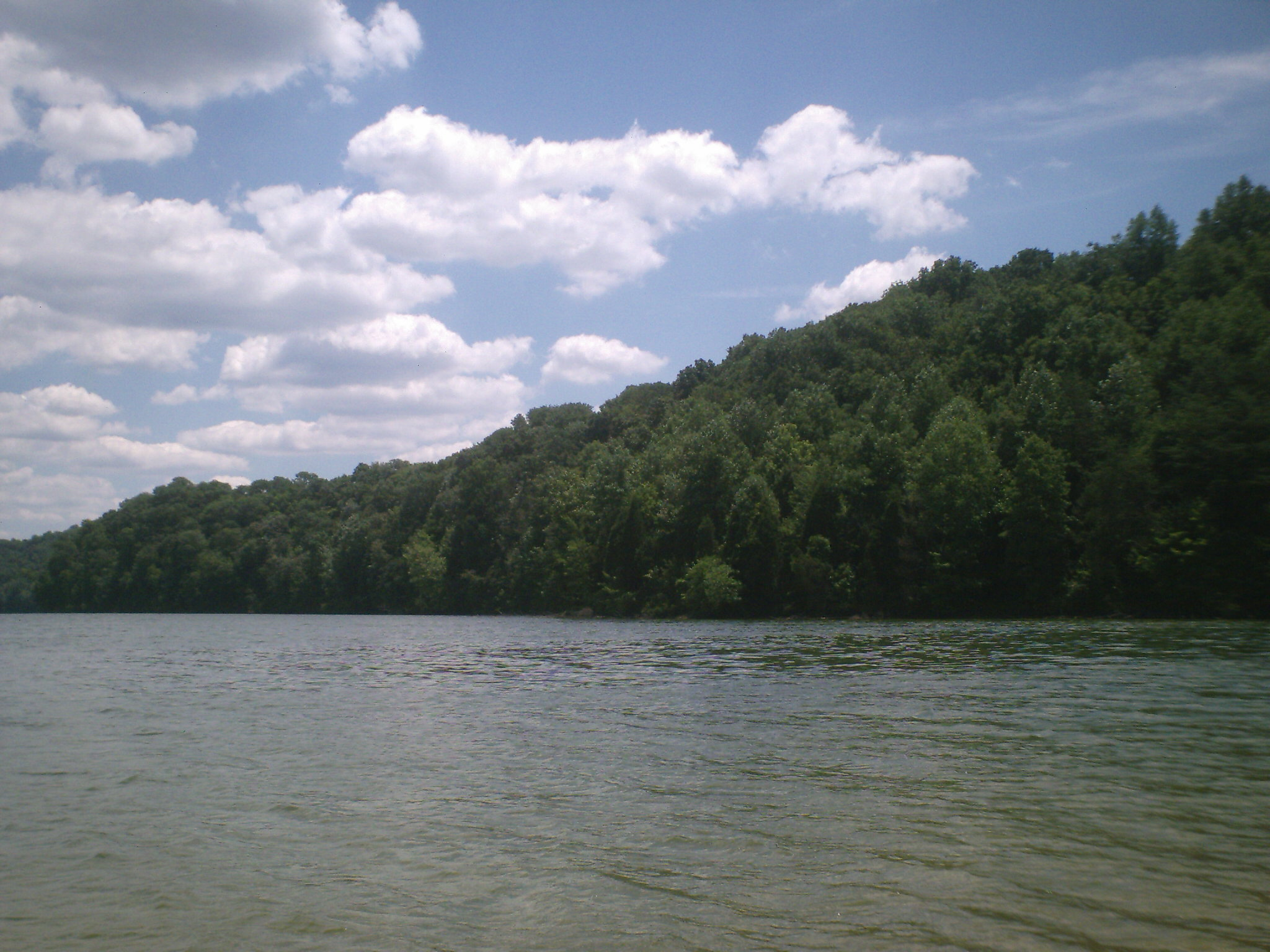 Picture Taken From Boat on Herrington Lake